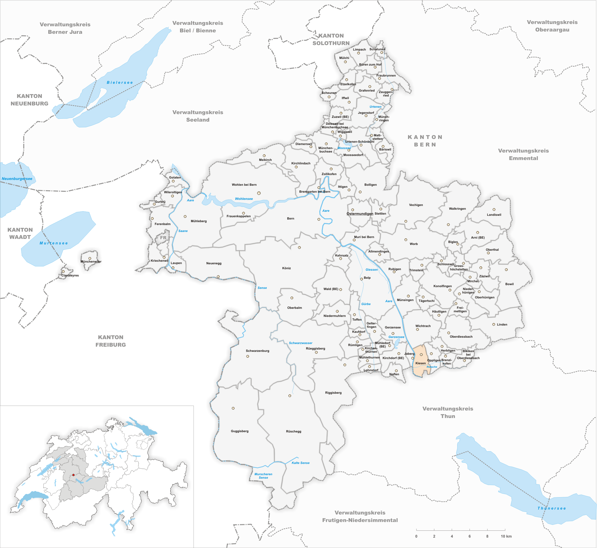 Municipality Kiesen